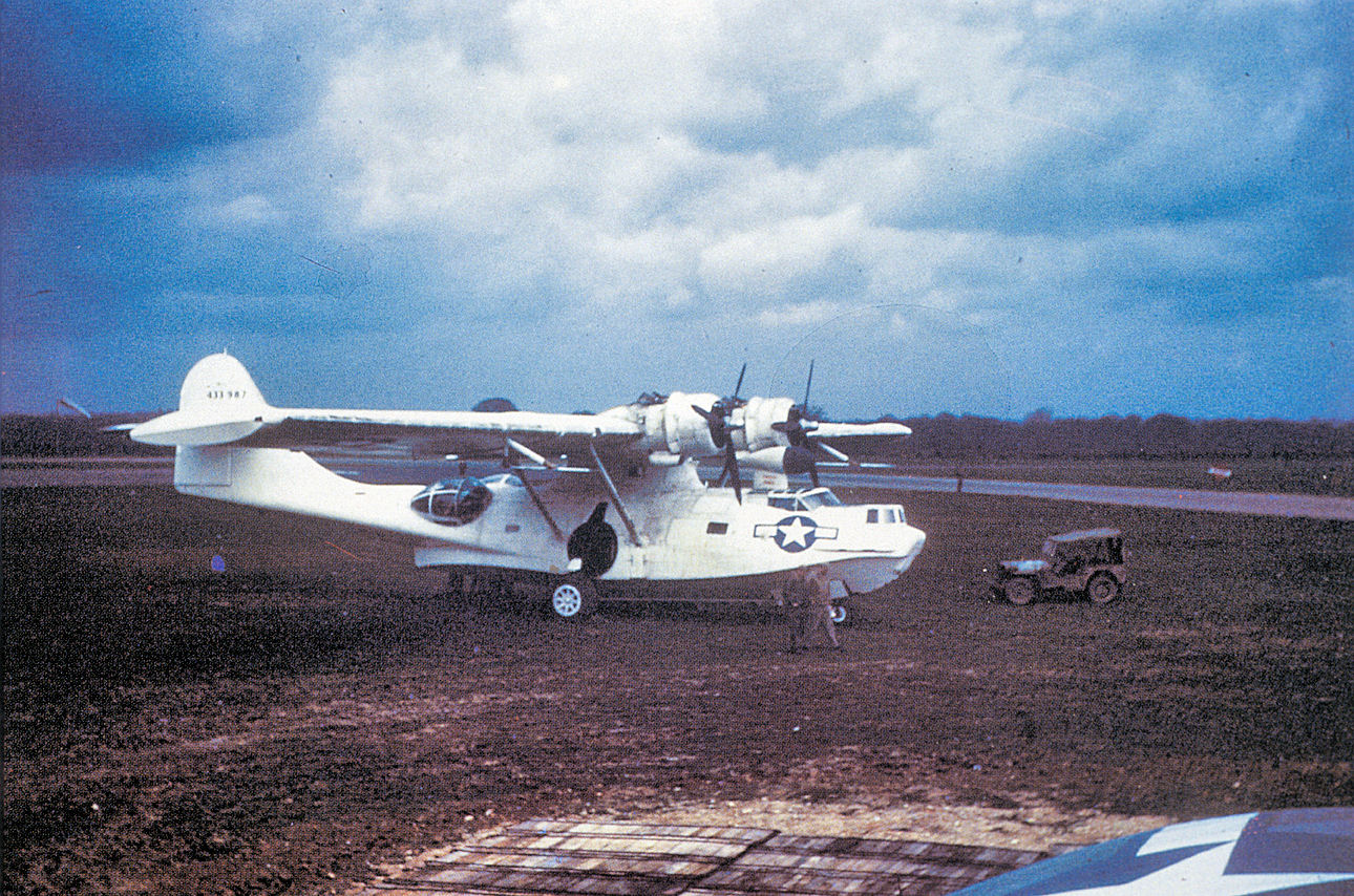 Canadian-built Catalina (PBV-1A) from Navy contract USAAF Designation OA-10 of the 5th Emergency Rescue Squadron at Halesworth Airfield, England, World War II.